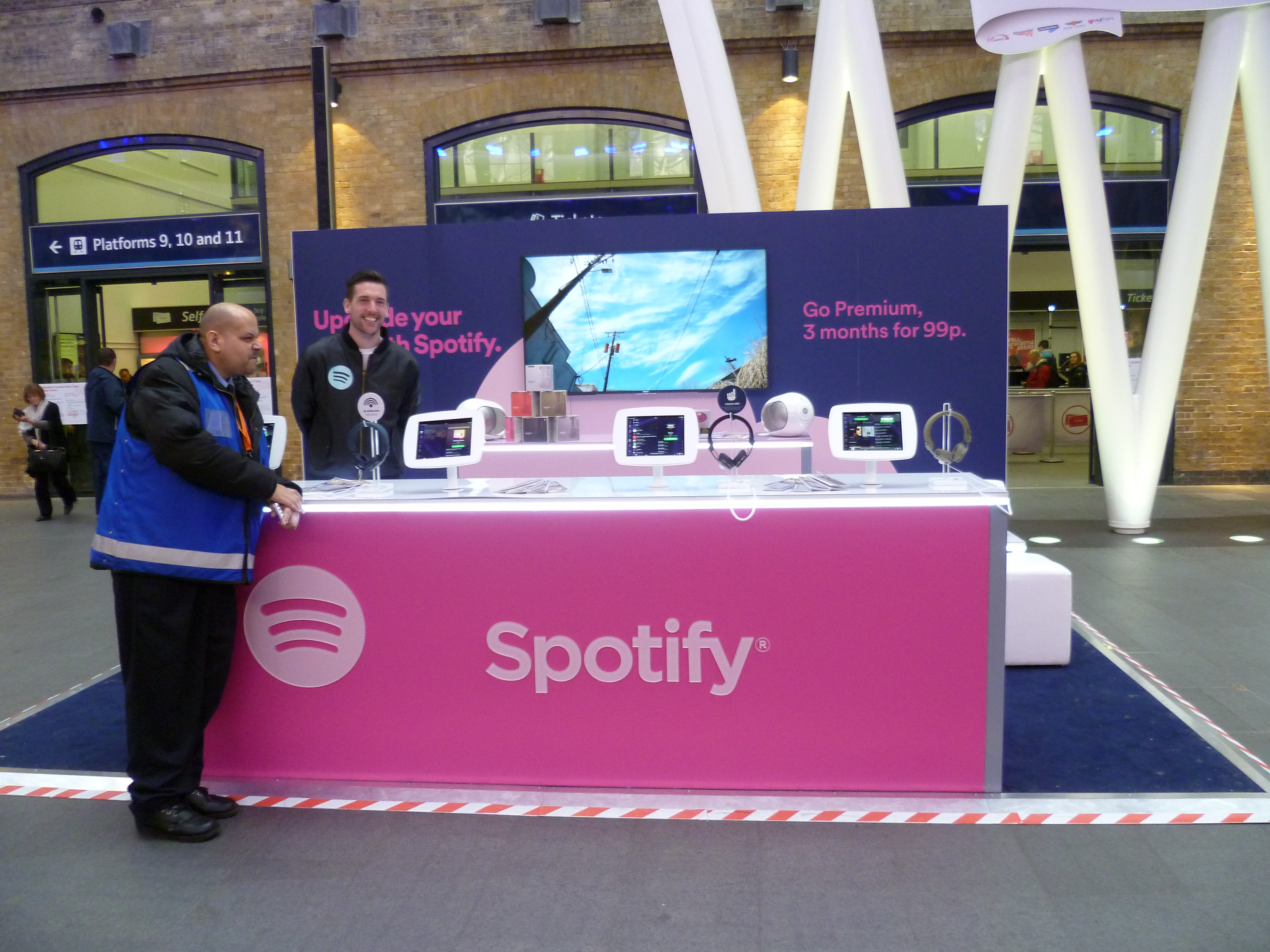 Spotify, King's Cross Railway Station